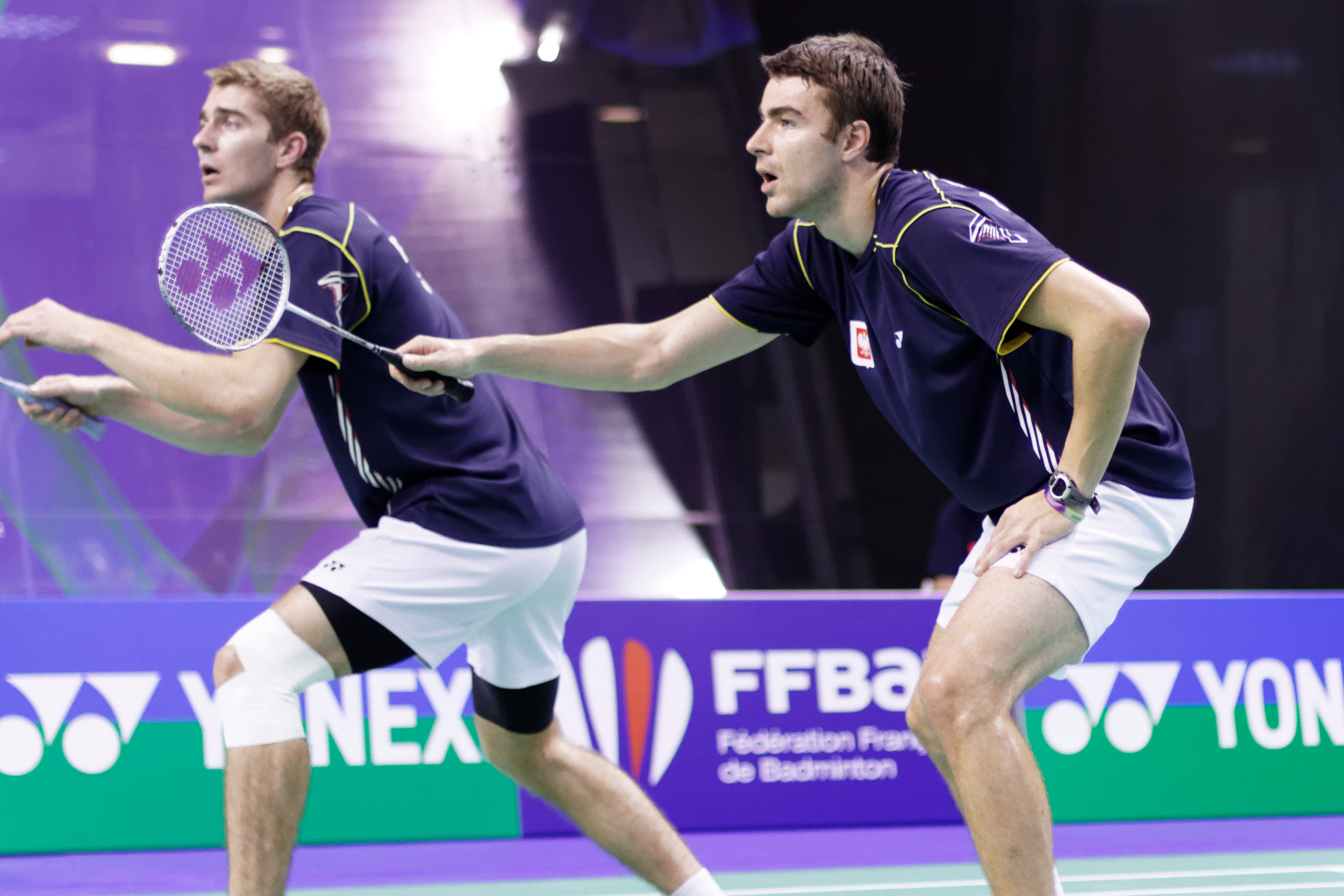 2013 French open. Men's doubles eightfinal. Łukasz Moreń and Wojciech Szkudlarczyk vs Mathias Boe and Carsten Mogensen.